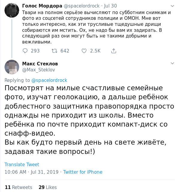 Max Steklov Tweet (2019-07-31)